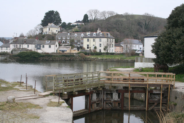 St Austell: Pentewan Harbour. Last used in the mid 20th century, the harbour was, with Par, Charlestown and Fowey, a place of export for 19th century china clay. It functioned in its intended role from 1826 to 1919. Sand has effectively buried the entrance channel. This was always a difficult harbour to maintain and operate. China clay was brought here by tramroad from St Austell; wagons were hauled by horses. The harbour and associated works were constructed for Sir Christopher Hawkins of Trewithen